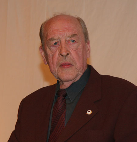 Odvar Nordli. Former Norwegian Prime Minister.